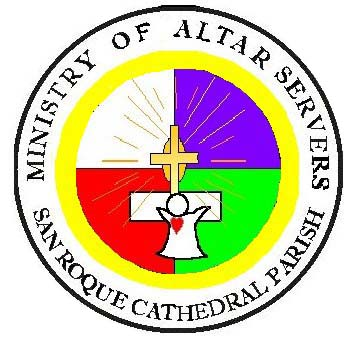 The first logo of the San Roque Cathedral Ministry of Altar Servers was crafted by Bro. Mark Journel Quero, the former Public Relations Officer of Juniors. The organizational logo is stylized as a characterization of the service that the altar servers are doing which is composed of the following symbolizations: • The Four colors (white, violet, red and green) - represent the four liturgical colors appropriate moods to a season of the liturgical year or may highlight a special occasion where (Red – blood/fire, Green – life, growth, hope, Violet- penance, atonement, expiation, and White - Purity, Holiness, Joy, Innocence and Triumph) • The human wearing a long clothing figure with a heart and semi-emphasized head– signify the Altar servers itself that offers its service holistically and with love and wisdom to the youth, the people and mainly to God. The clothing represents the vestment used by them that includes the cassock (sutana) and a worn-over surplice. • The cross with light rays - that represents our God who died in the cross for the redemption from our sins and the light that gives us life and guidance. • The Rectangular Shaped figure – represents the altar where the Altar Servers particularly do their function. • The Gold Color (which is also one of the liturgical colors that functions as a default) – represents the possession of the altar servers with relaxation and enjoyment of life, good health, promotion of courage, confidence and willpower in every meaningful activities they do within the liturgical year of the Catholic faith. • Surrounding the enclosed colored cold line are the words “Ministry of Altar Servers” – which is the name of the organization itself and below is “San Roque Parish Cathedral” – which means that it is the base of the institution. • The Circle - symbolizes the continuation of the service, life and the generation of the organization.